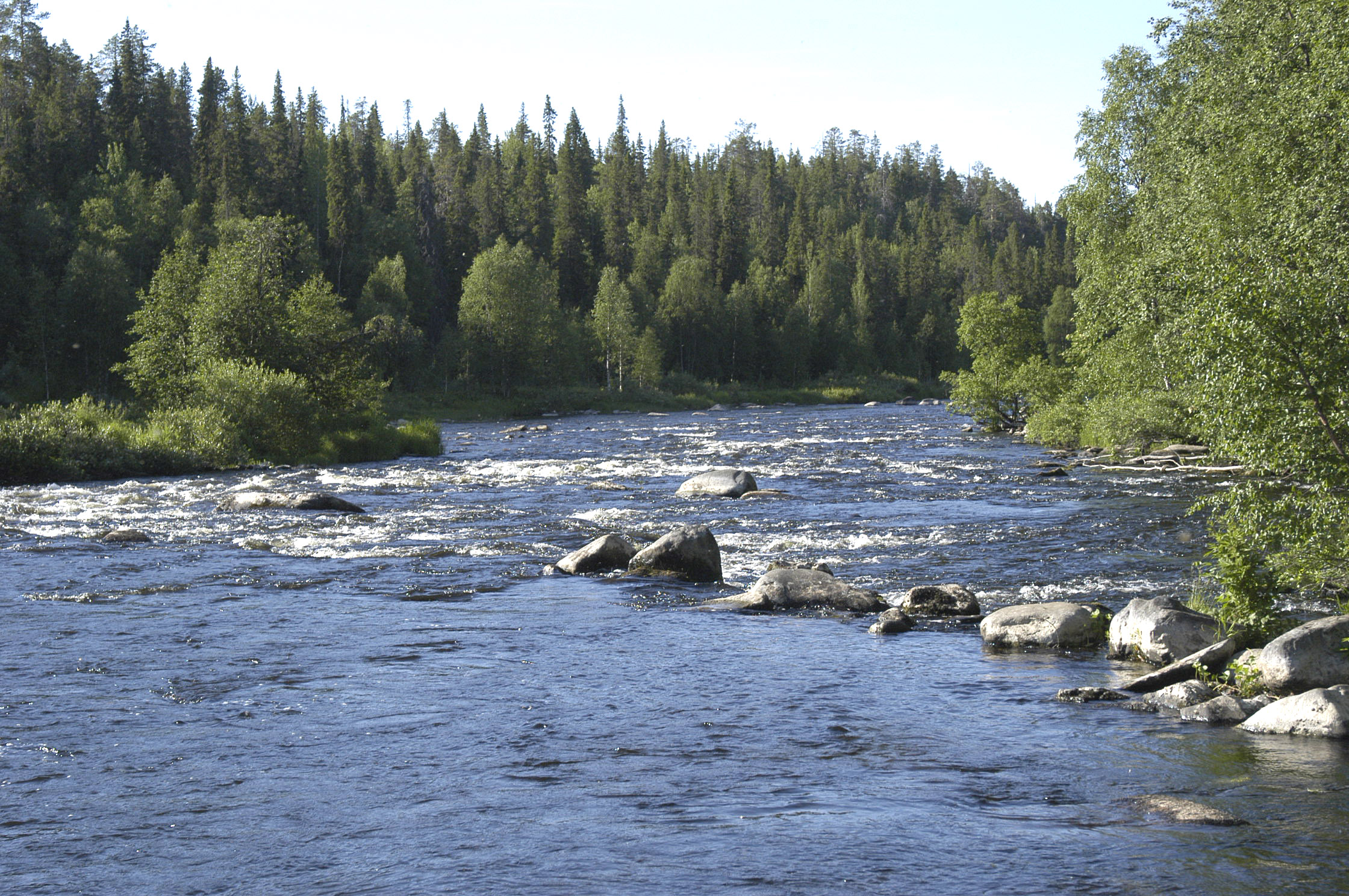 Käpykoski rapids on river Kuusinkijoki in Kuusamo, Finland